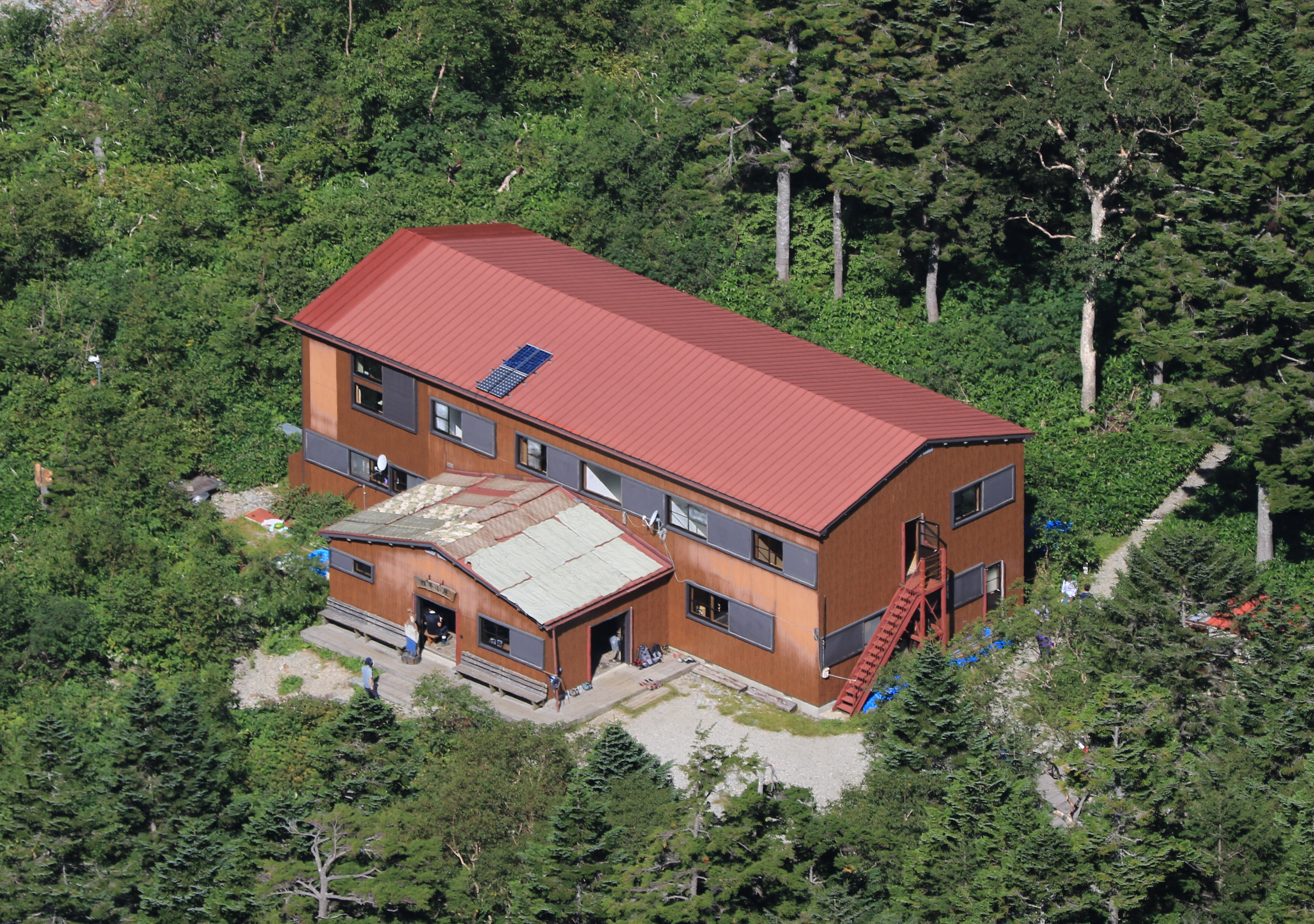 Yaridairagoya with futons on roof seen from Mount Minami trail, Hida Mountains, Takayama, Gifu prefecture, Japan.